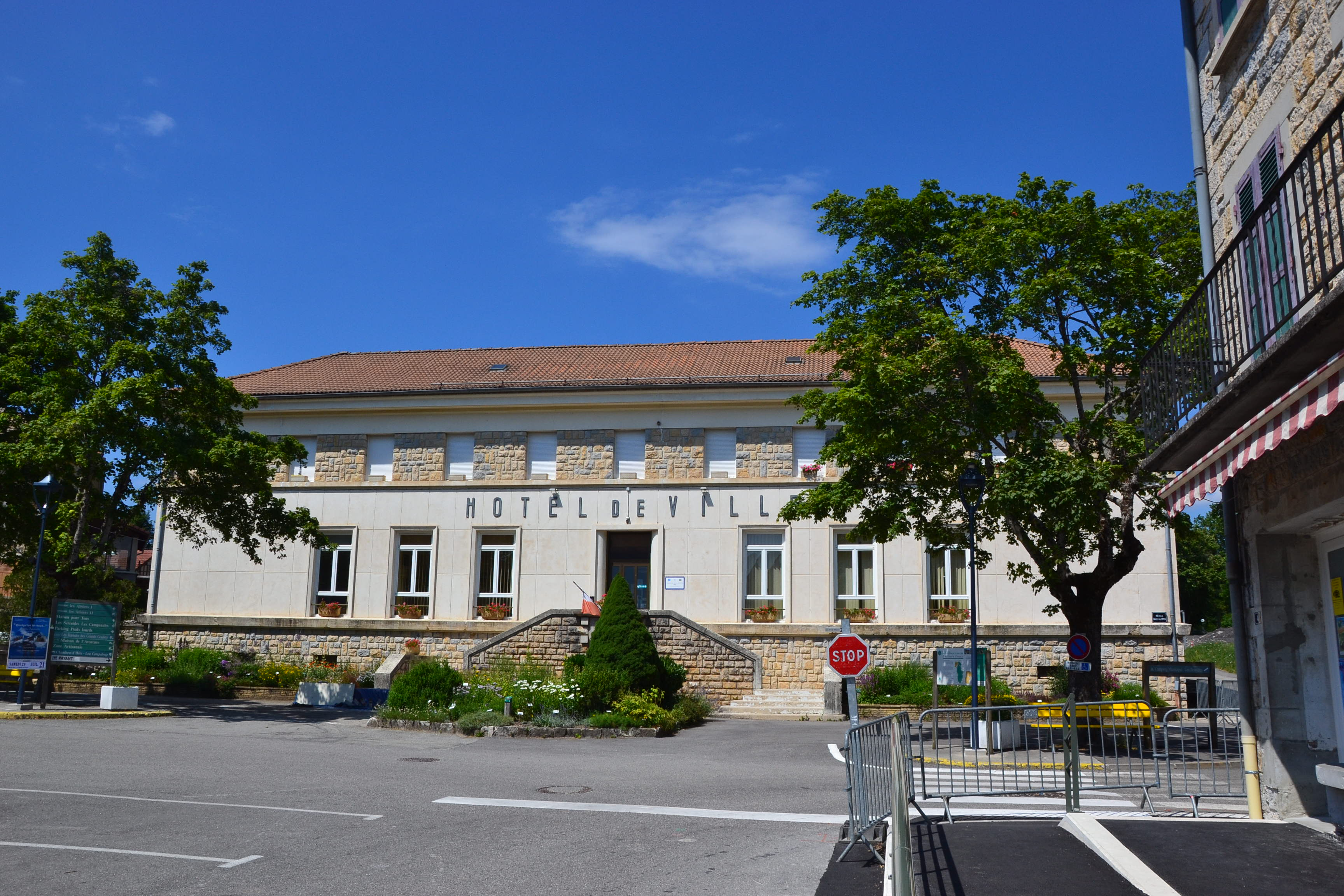 Town hall of La Chapelle-en-Vercors, Drôme, France